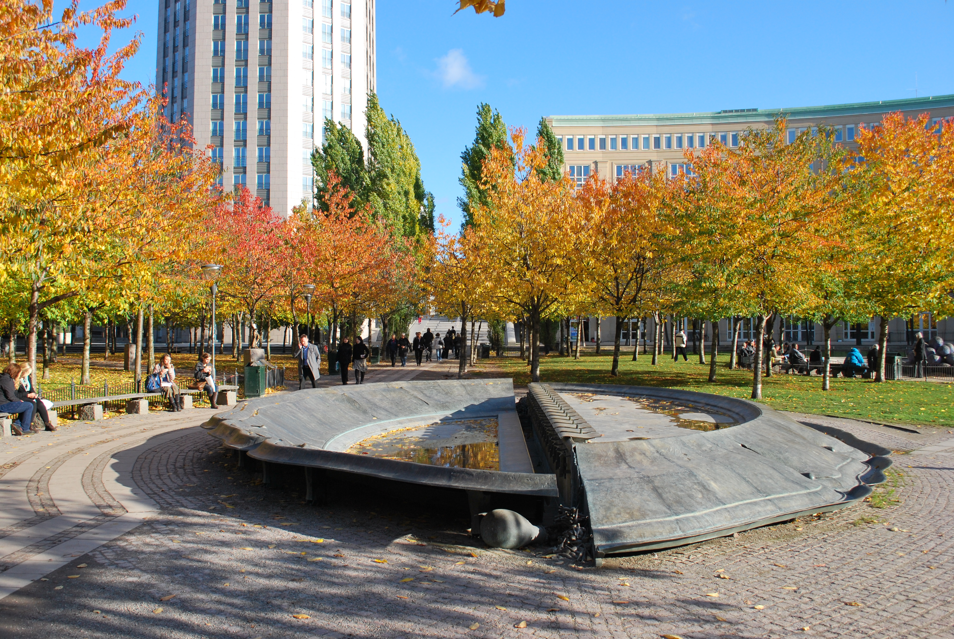 Fatbursparken, Södermalm, Stockholm, seen towards Medborgarplatsen